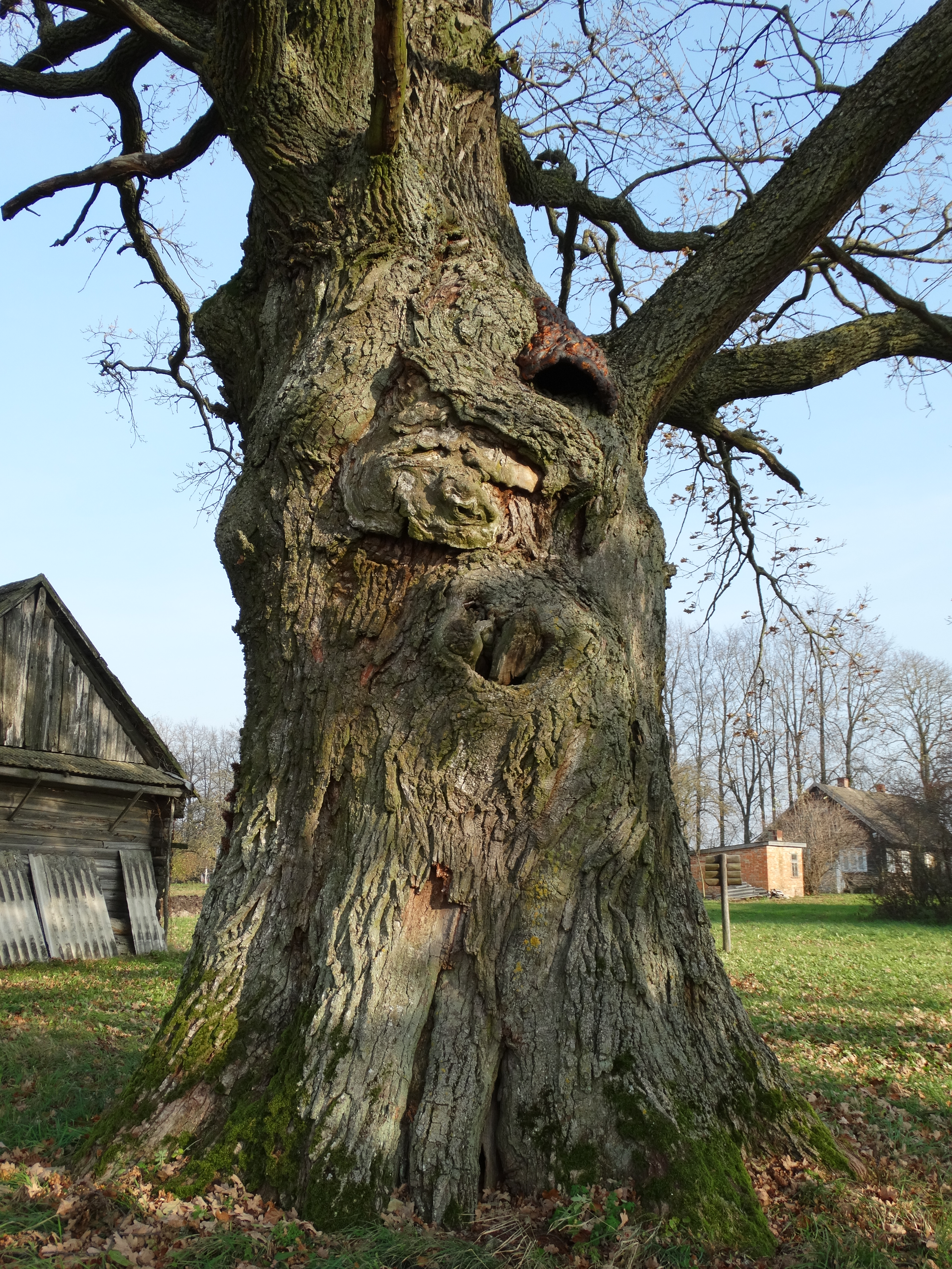 Oak tree in Girniūnai, Pasvalys District, Lithuania